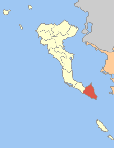 Locator map of Lefkimmi municipality (Δήμος Λευκιμμαίων) in Corfu prefecture (Νομός Κέρκυρας) in Greece.